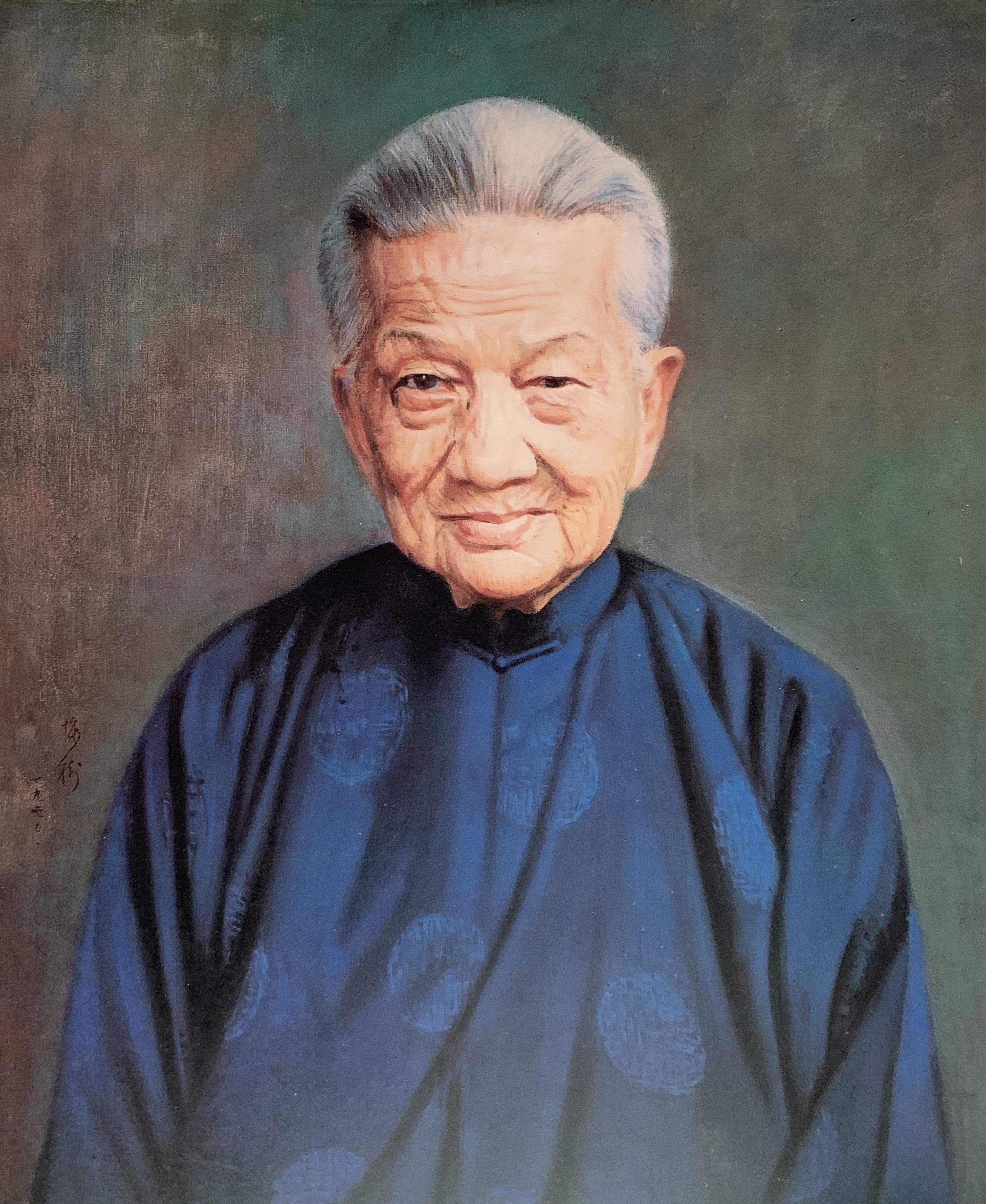 Name of the artwork: Aged Mrs. Chen Author: Li Mei-shu Time: 1970 Paint by: oil paint, canvas Size:72.5x60.5cm